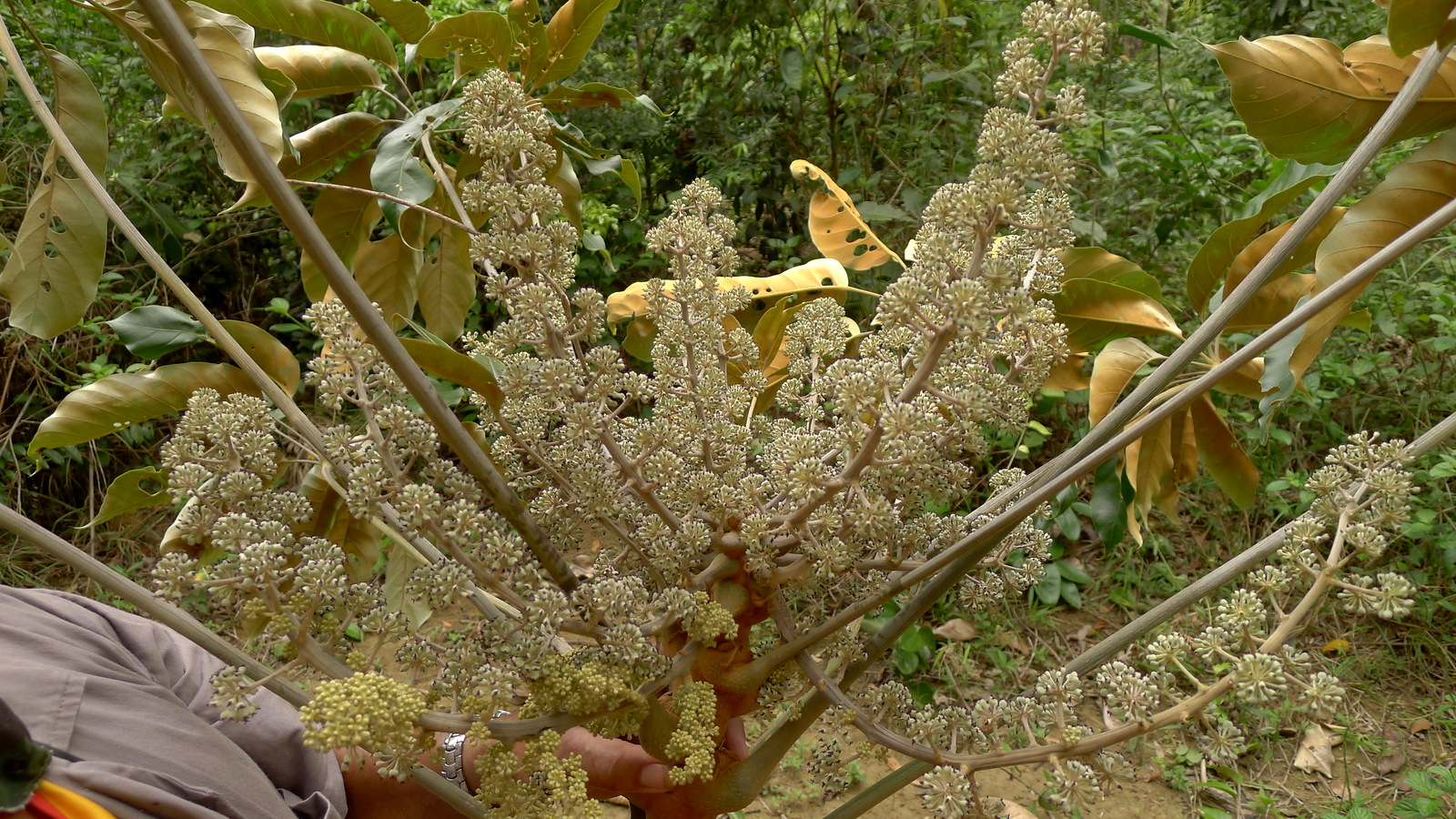 Schefflera morototoni (Aubl.) Maguire, Steyerm. & Frodin